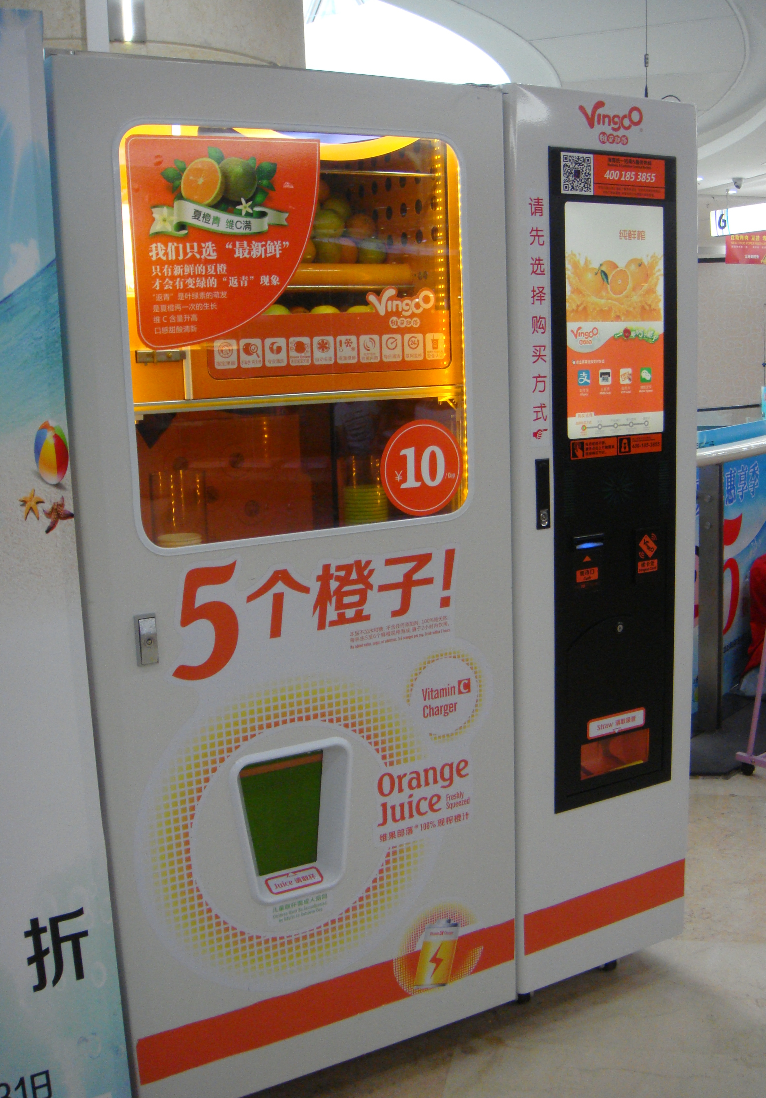 Fresh-squeezed orange juice vending machine in Haikou, Hainan, China